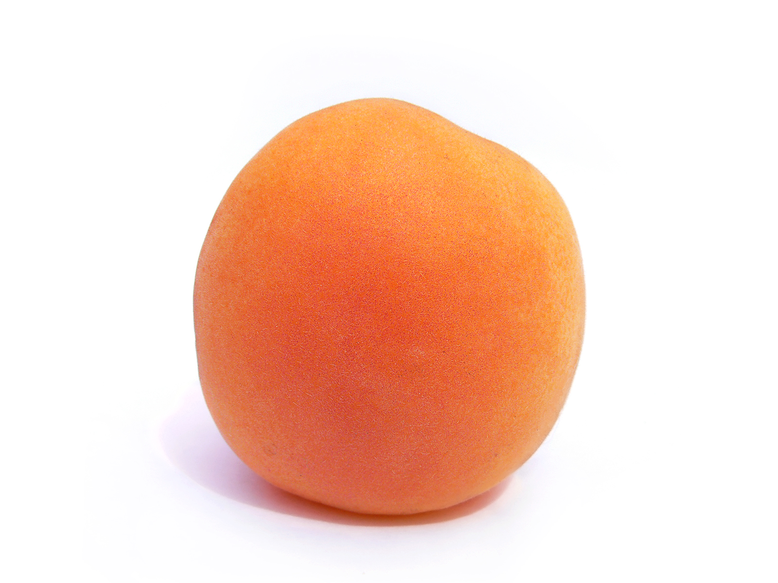 An Apricot fruit, Prunus armeniaca, set on a white background.